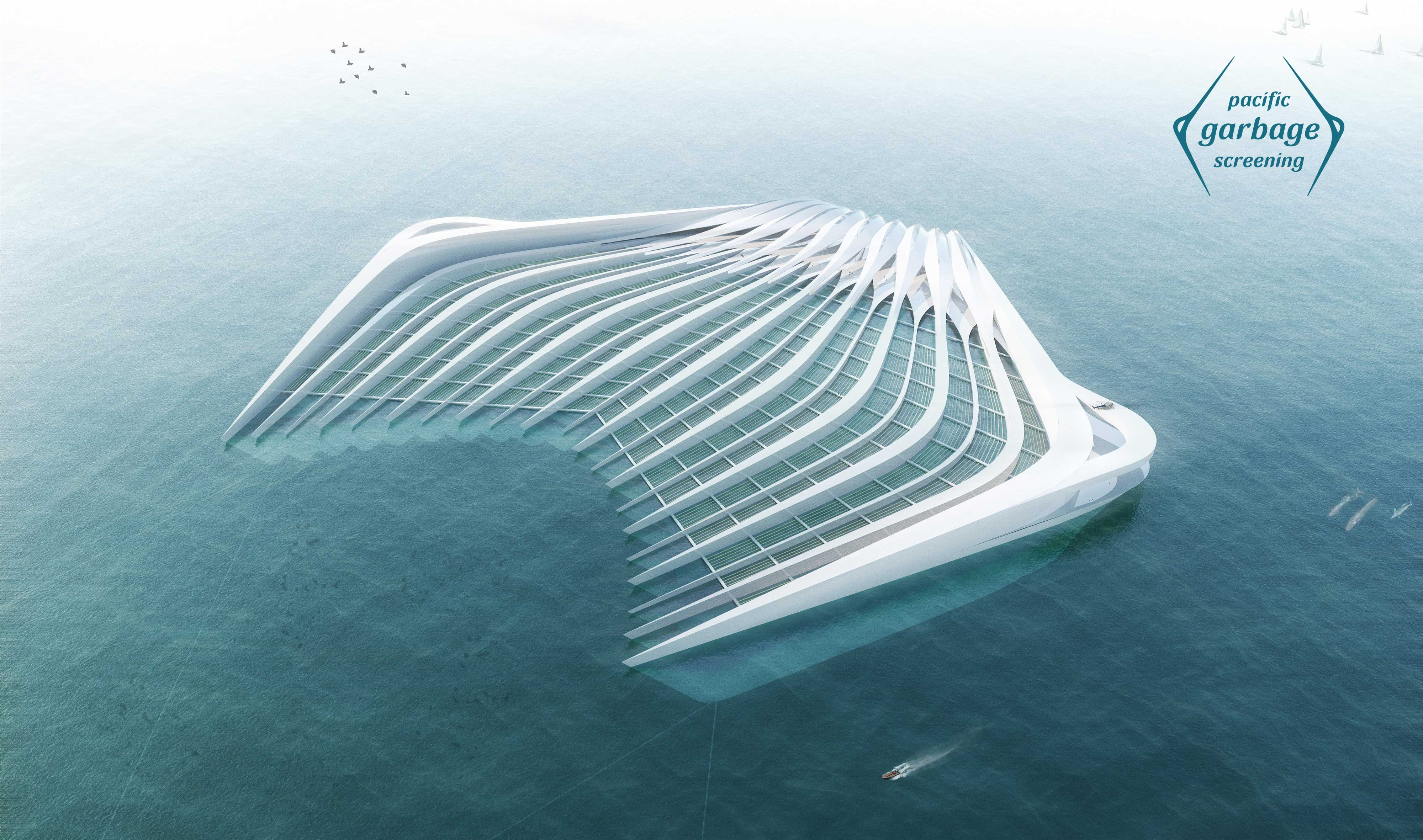 Swimming platform wich filters particles of plastic out of the ocean.